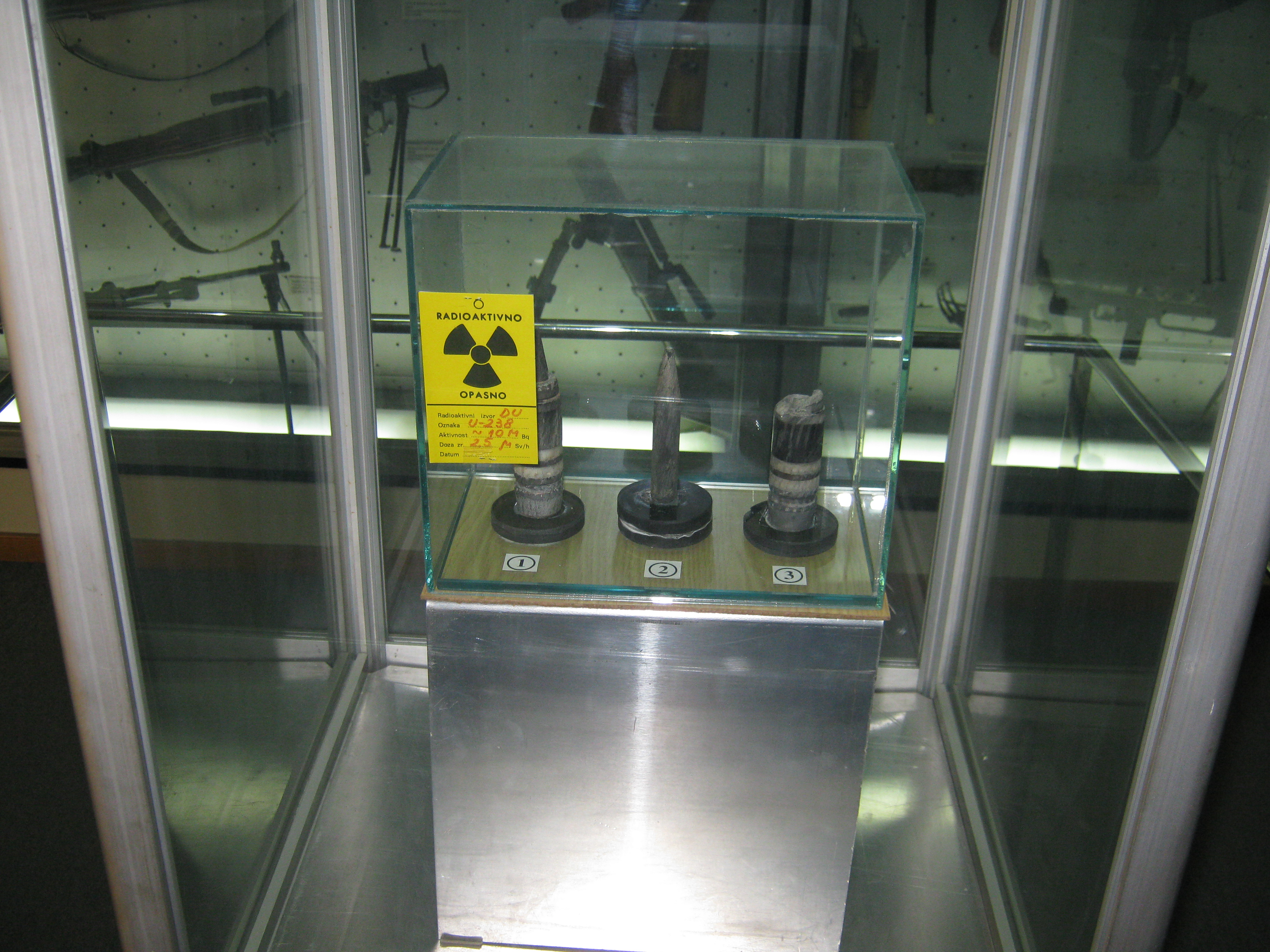 Depleted uranium (DU) ammunition of U-238, firing on the ground of FR Yugoslavia 1999. Photo taken in:Military museum Belgrade